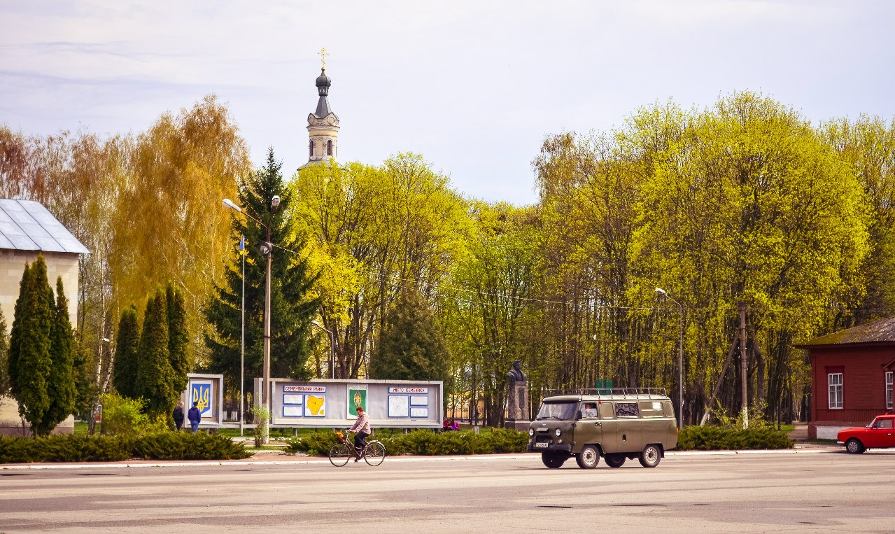 Red Square in Semenivka